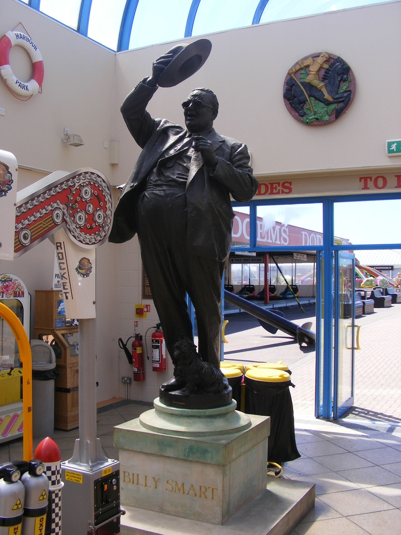 Statue of Billy Smart inside Harbour Park, Littlehampton, West Sussex, England